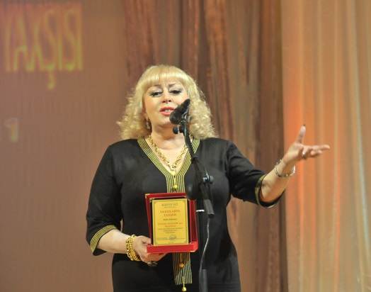 İlhama Guliyeva receives "Yaxşıların Yaxşısı (Best of the Best)" Award. 2011.